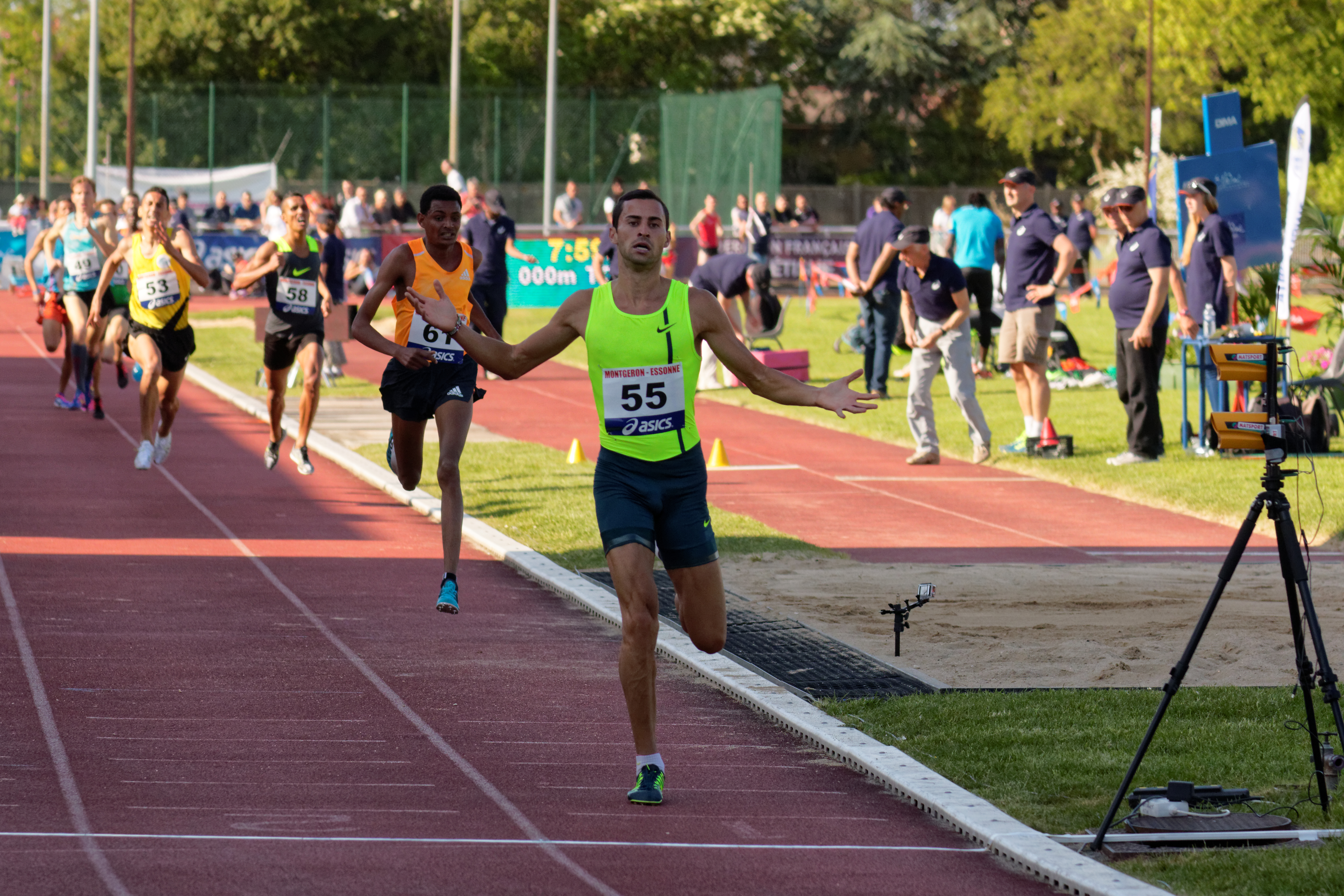 Meeting of Montgeron, 3000m, 17 May 2015.